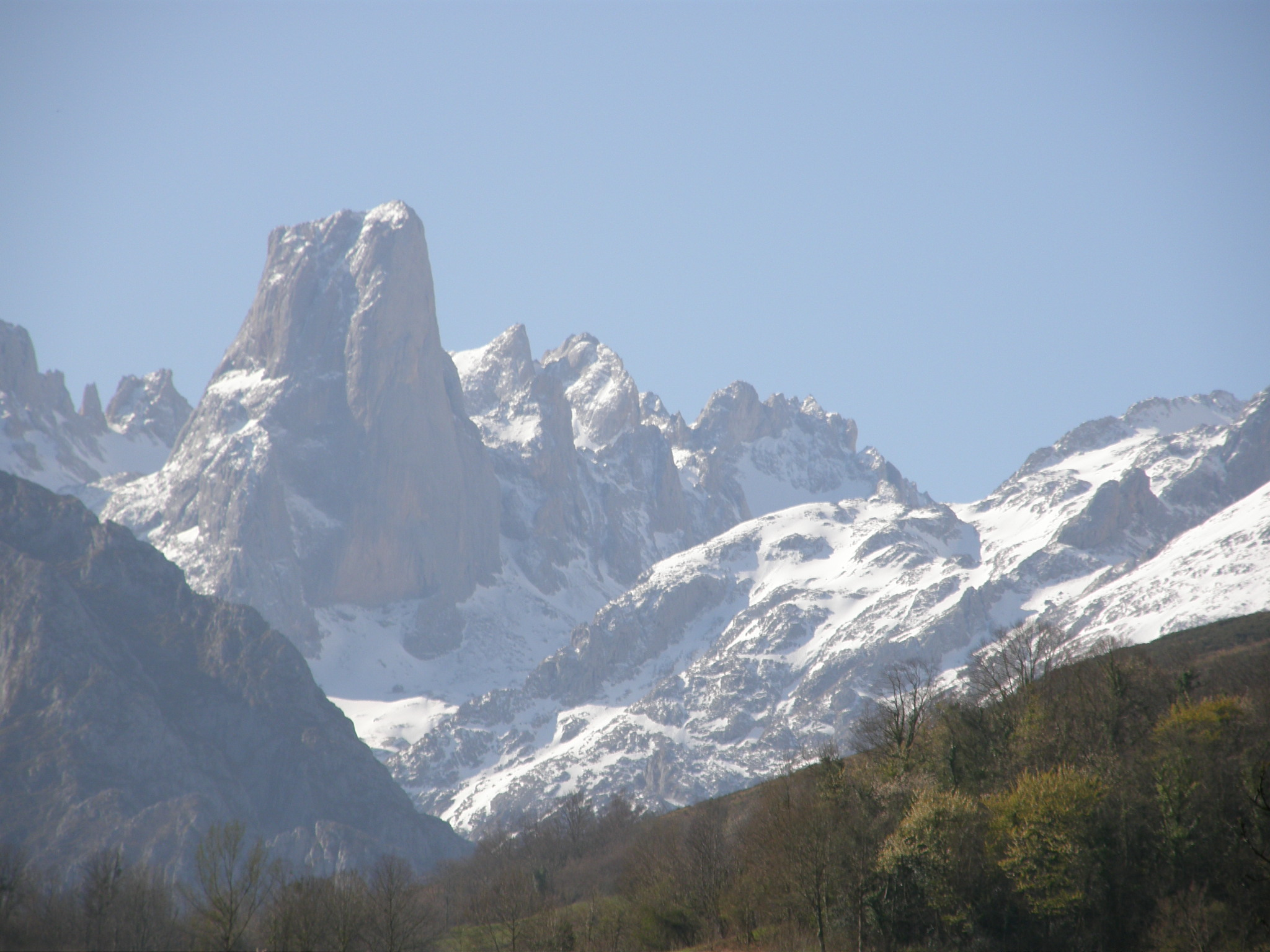 Naranjo de Bulnes, also known as Picu Urriellu. The Naranjo de Bulnes (known as Picu Urriellu in Asturian) is a limestone peak dating from the paleozoic era, located in the Macizo Central region of the Picos de Europa, Asturias (Spain). It is referred to as ‘Picu Urriellu’ by locals, which is believed to be derived from the term "Los Urrieles" which is used to describe the Macizo Central. Naranjo de Bulnes is part of the Cabreles region of Asturias, and lies within the Picos de Europa National Park.